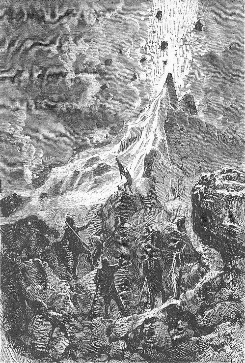 An illustration from Jules Verne's novel "Journeys and Adventures of Captain Hatteras", part II: "The Field of Ice" drawn by Édouard Riou and/or Henri de Montaut. The volcano on North Pole.